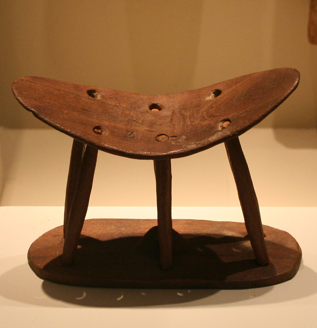 Ancient Egyptian headrests. Roemer und Pelizaeus-Museum, Hildesheim